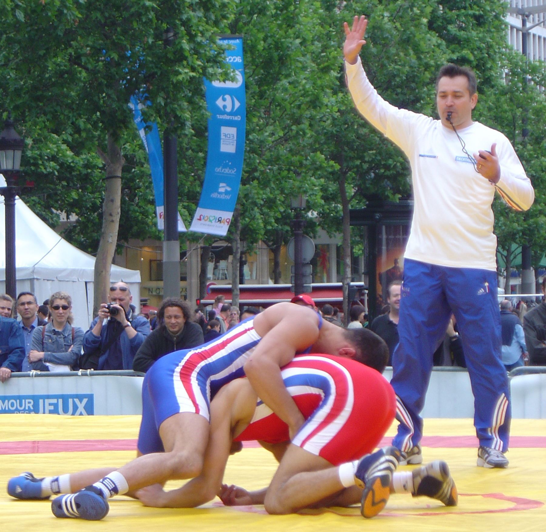 Sport wrestling Party promoting the candidacy of Paris to the 2012 Olympic Games., Avenue des Champs-Élysées, 5 June 2005